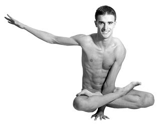 Ekahasta Kukkutásana